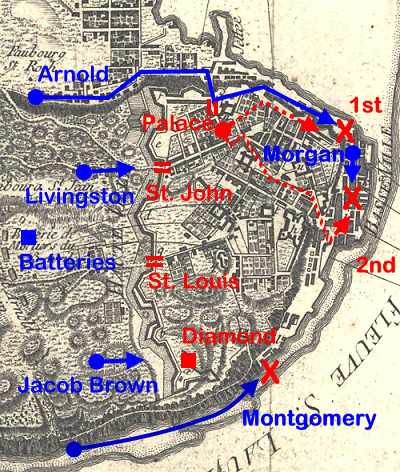 Troops movement during Battle of Quebec, December 1775.